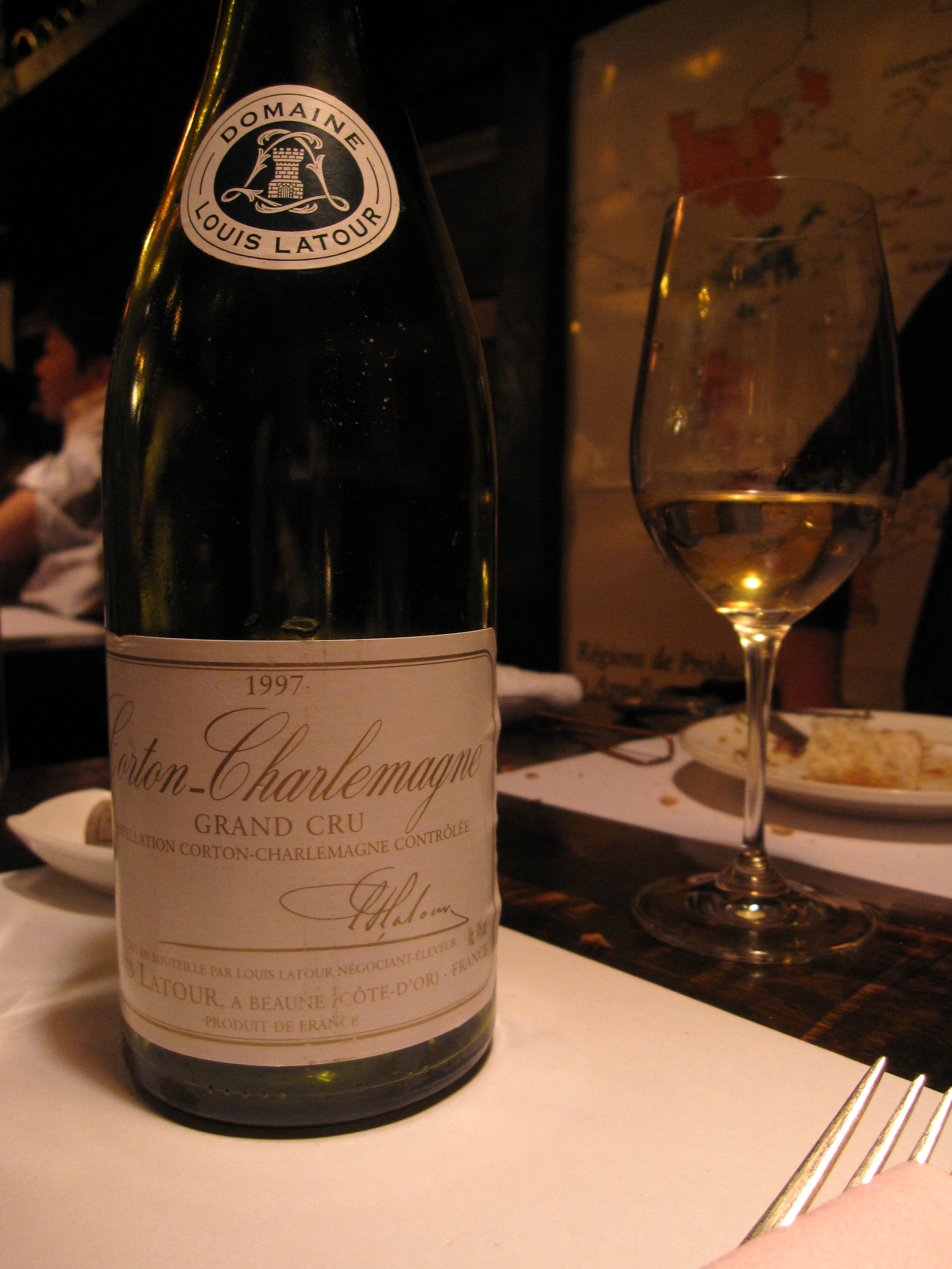 Chardonnay from the French wine region of Burgundy